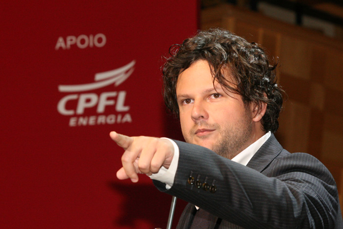 Selton Mello in the 5th edition of the award BRAVO! Prime de Cultura in 2009.